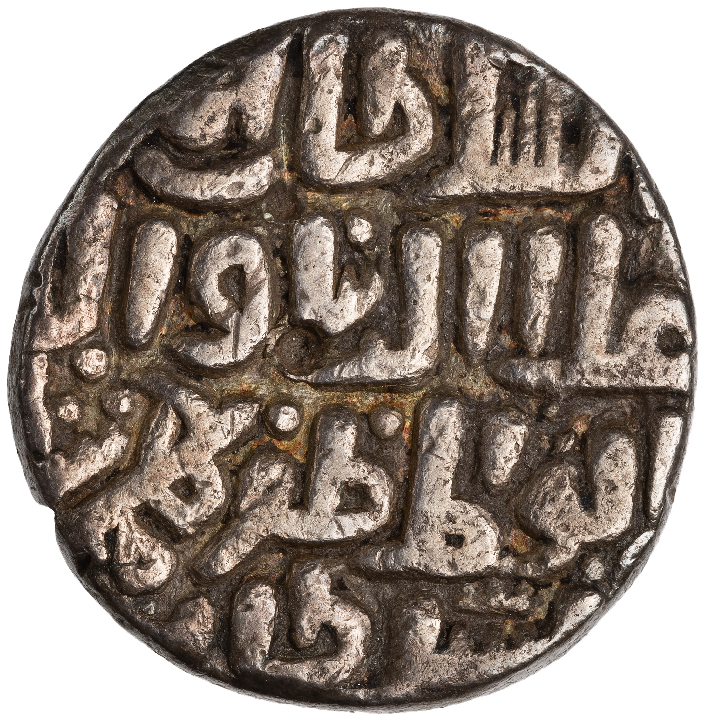 Coin of Ala-ud-Din Bahman Shah.